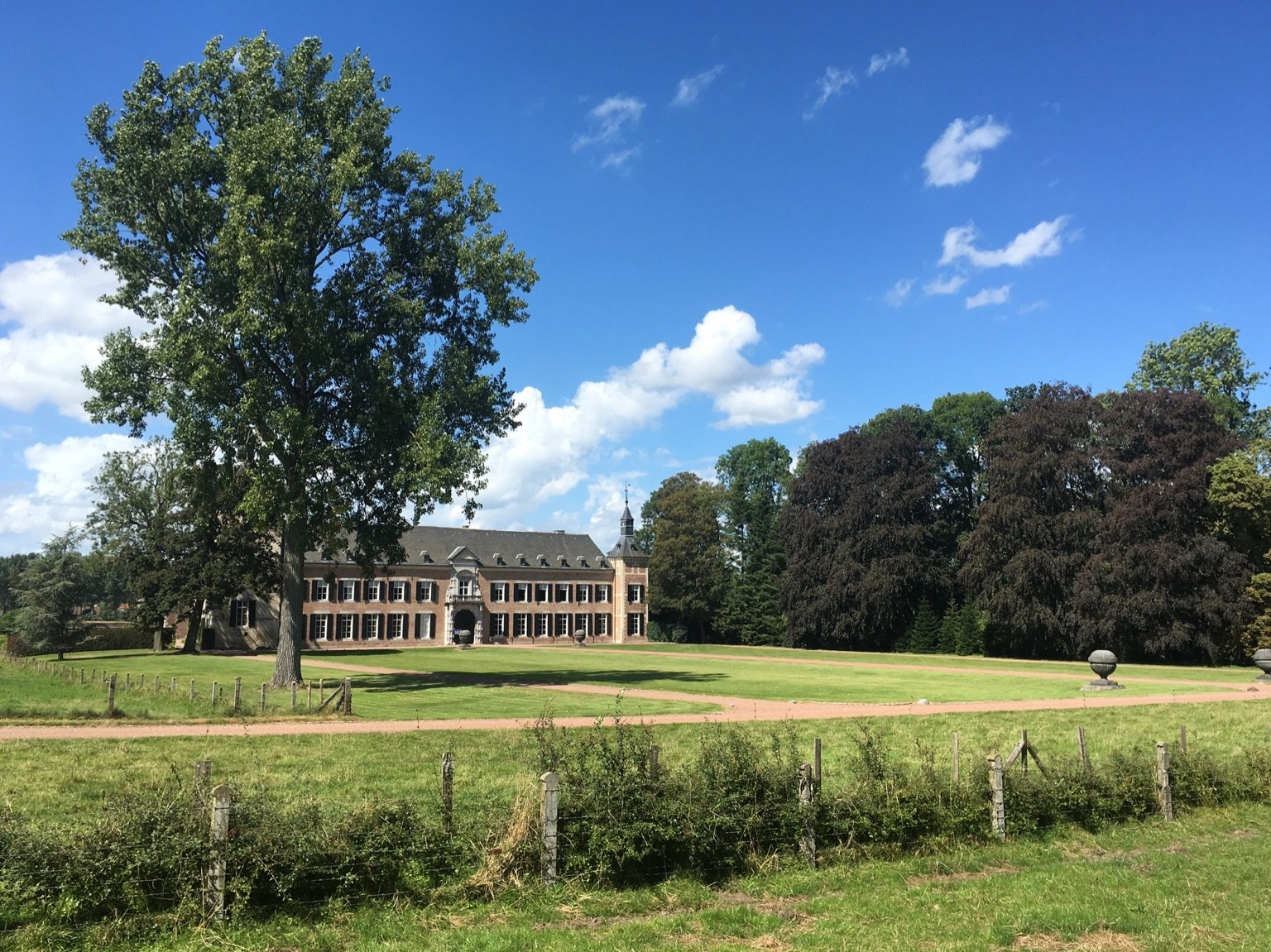 Facade of the castle of Betho with a part of the estate.